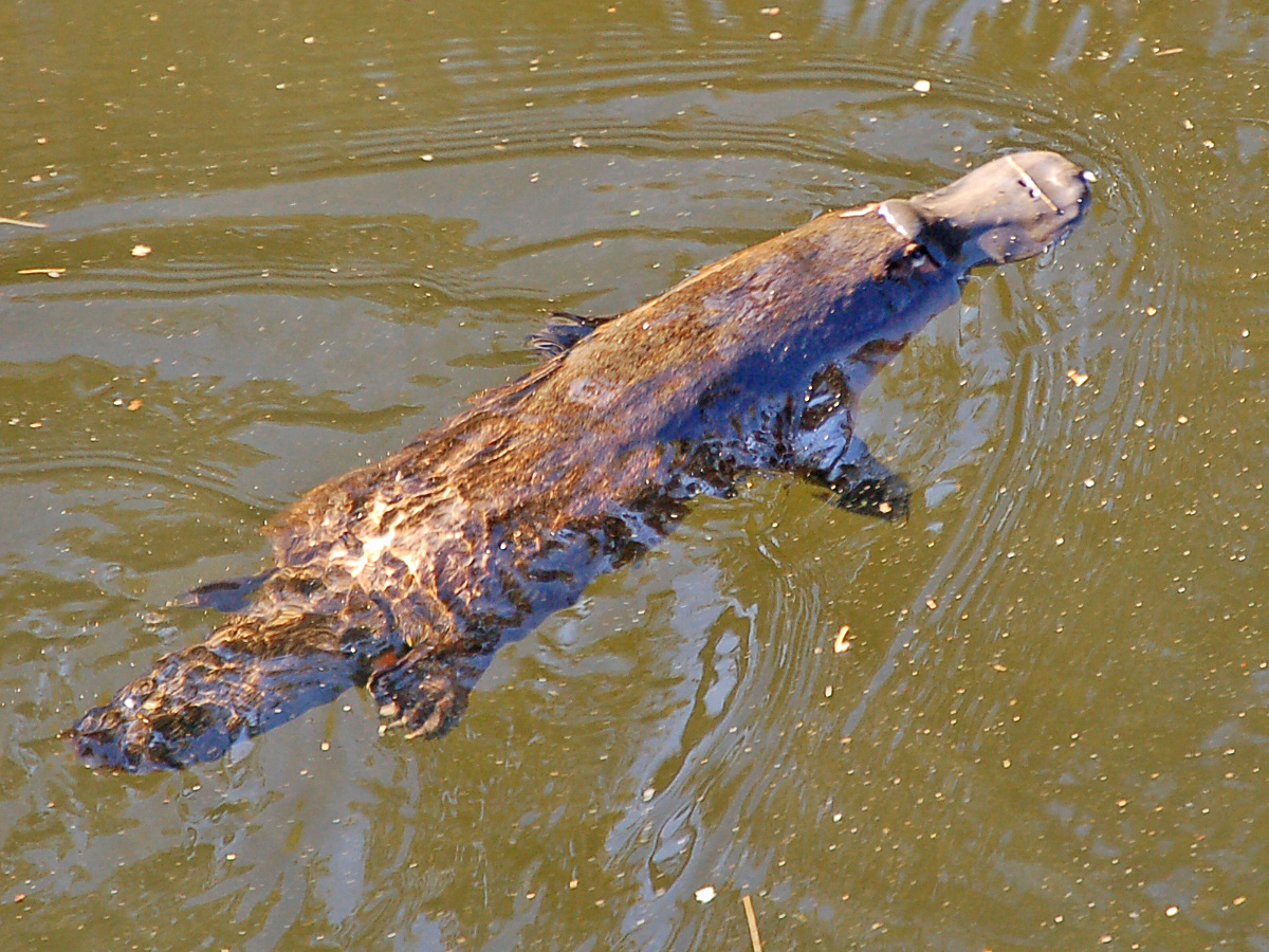 Ornithorhynchus anatinus